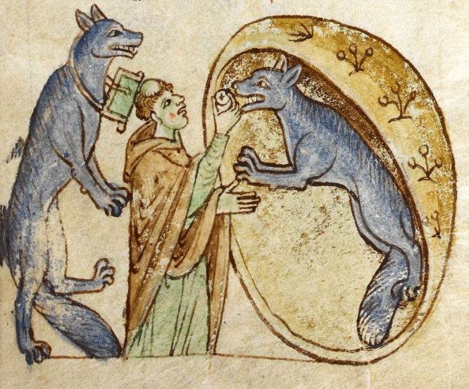 An illustration from Topographia Hiberniae depicting the story of a traveling priest who meets and communes a pair of good werewolves from the kingdom of Ossory.